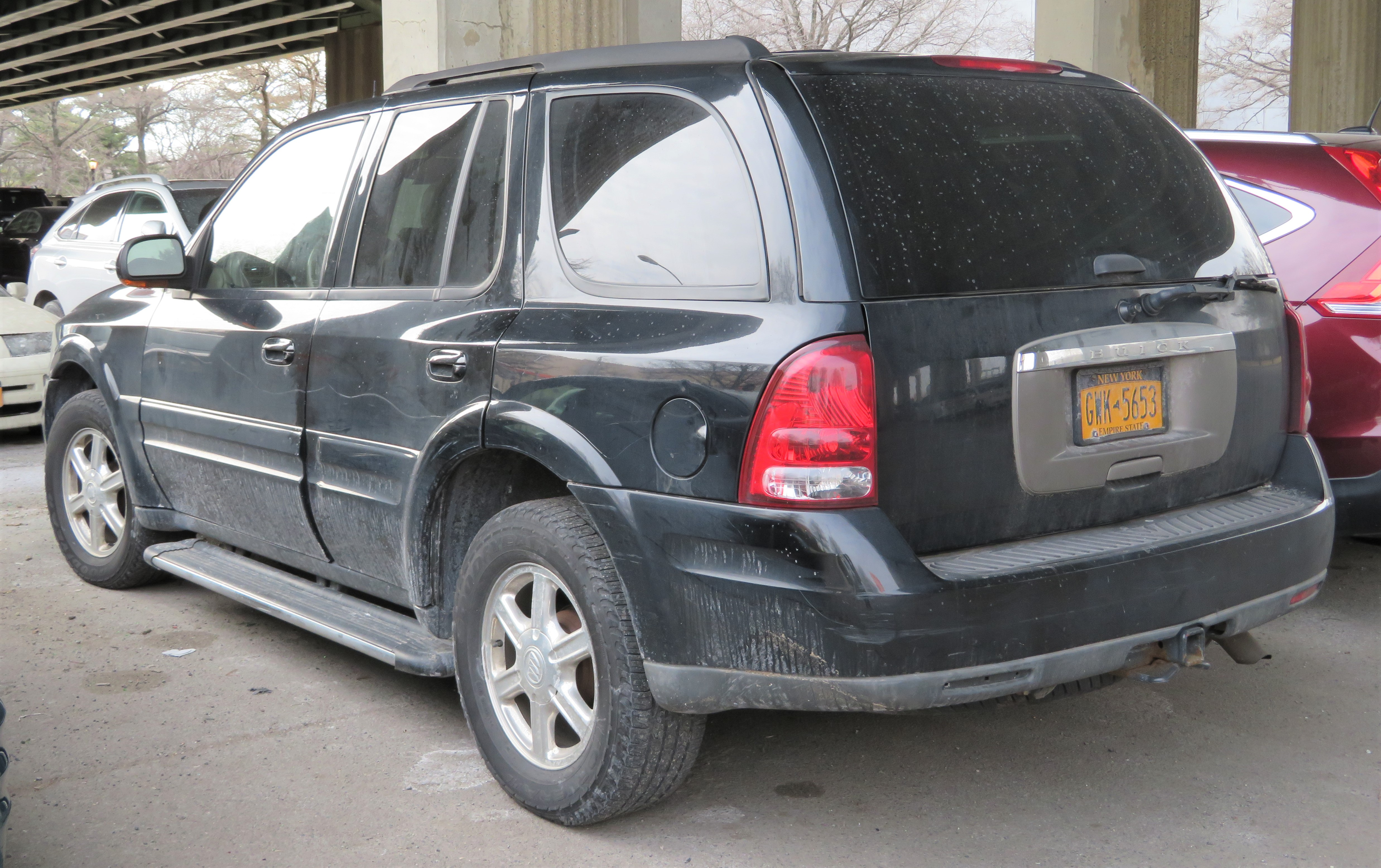 In Flushing, New York.